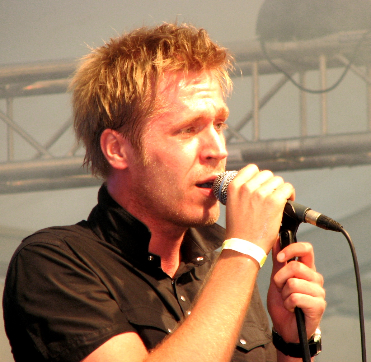 Margus Vaher performing in Õlletoober 2010